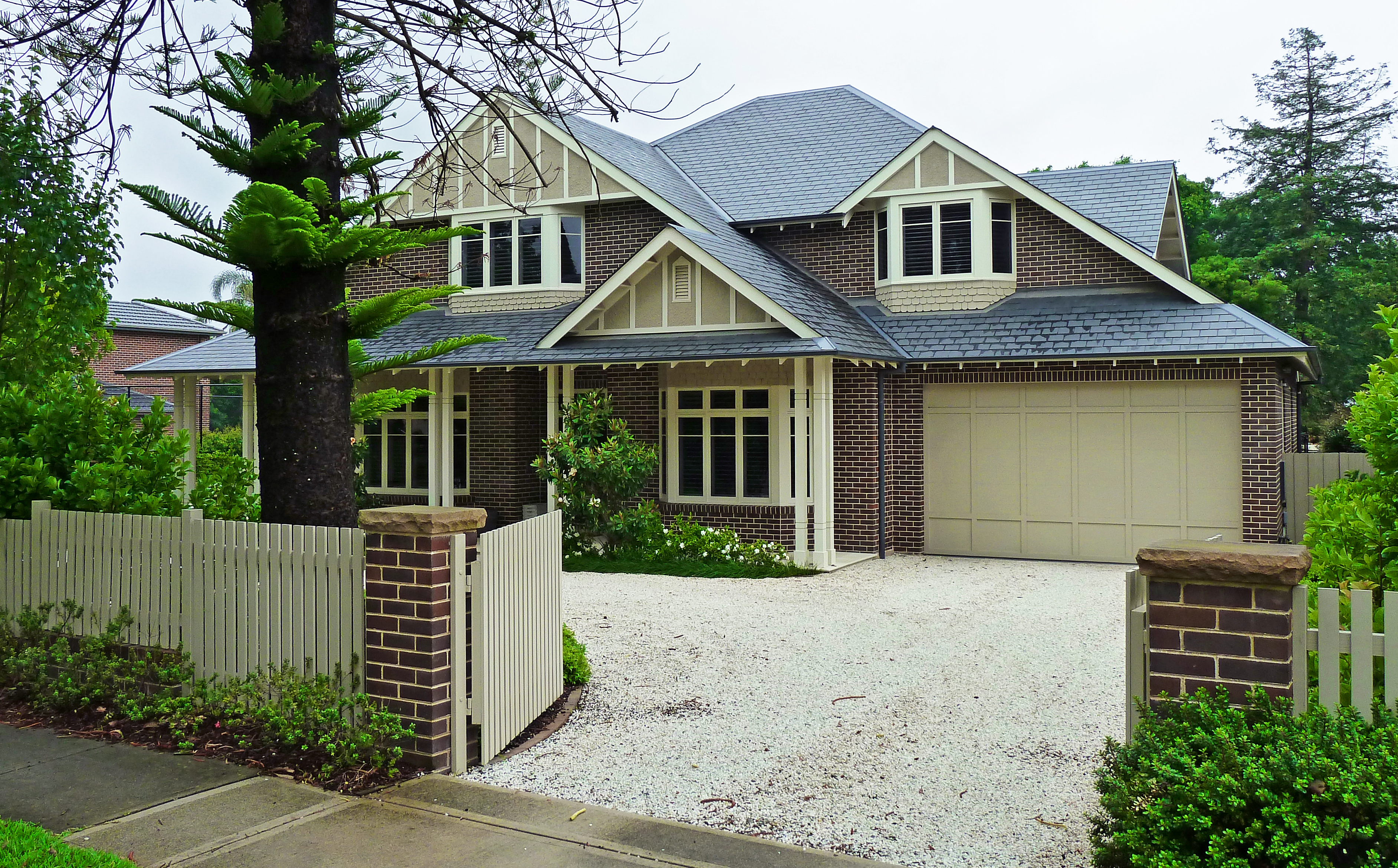 139 Middle Harbour Road, East Lindfield, New South Wales, Australia.